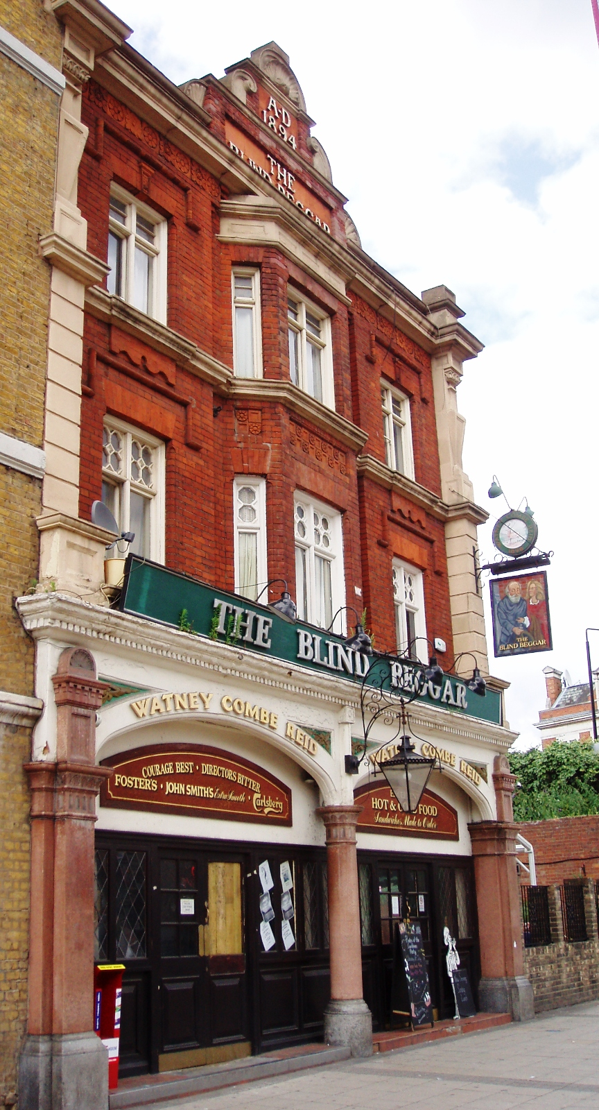 Another historic pub on this stretch of road. Owner: (website); Watney Combe Reid (former). Links: Randomness Guide to London Fancyapint Beer in the Evening Wikipedia Dead Pubs (history)